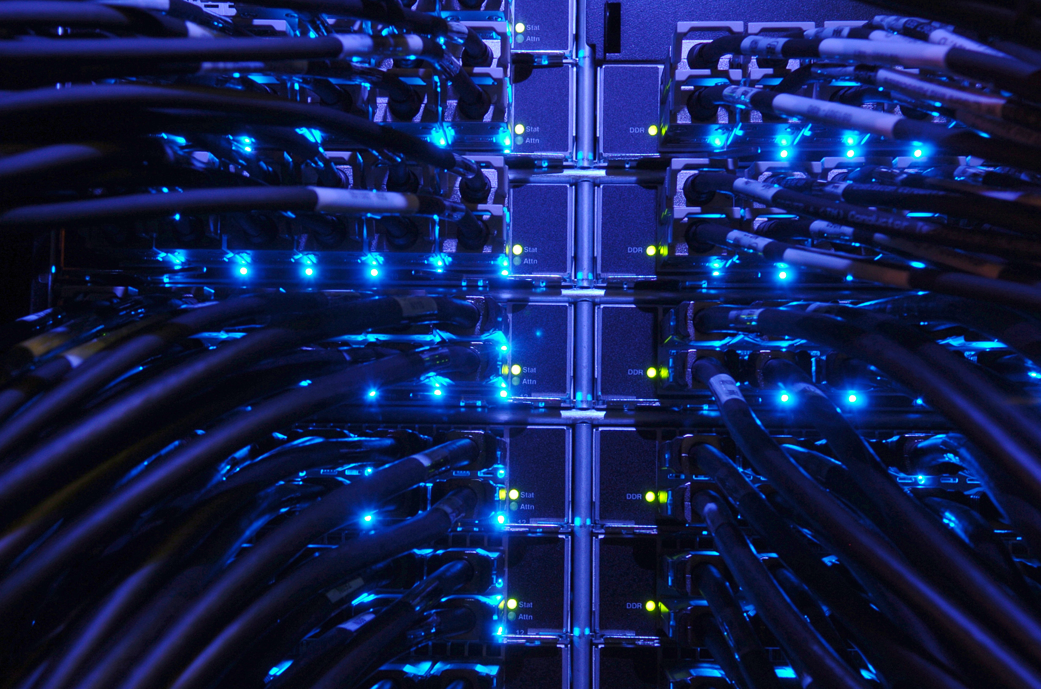 The Center for Nanoscale Materials at the Advanced Photon Source. Photo courtesy of Argonne National Laboratory.